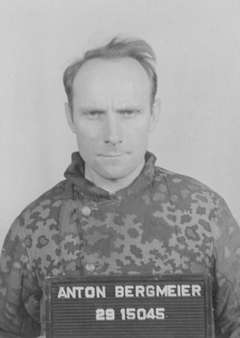 Anton Bergmeier was SS-Oberscharführer and co-chief of the camp-prison in the concentration camp of Buchenwald. In the Buchenwald Camp Trial (part of the Dachau Trials) he was sentenced to death by hanging (later modified to lifetime imprisonment).